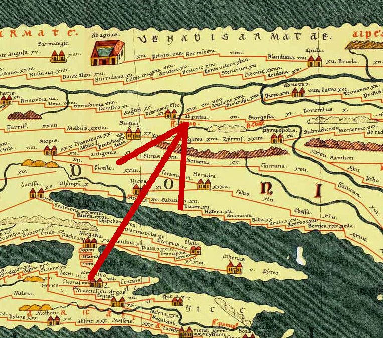 Cutout from Tabula Peutingeriana, 1-4th century CE. Facsimile edition by Conradi Millieri, 1887/1888; the red arrow shows Tabula Peutingeriana places in modern Bulgaria; on the map: Adpvtea OR AdPutea OR Adputea; in modern Bulgaria: village Riben